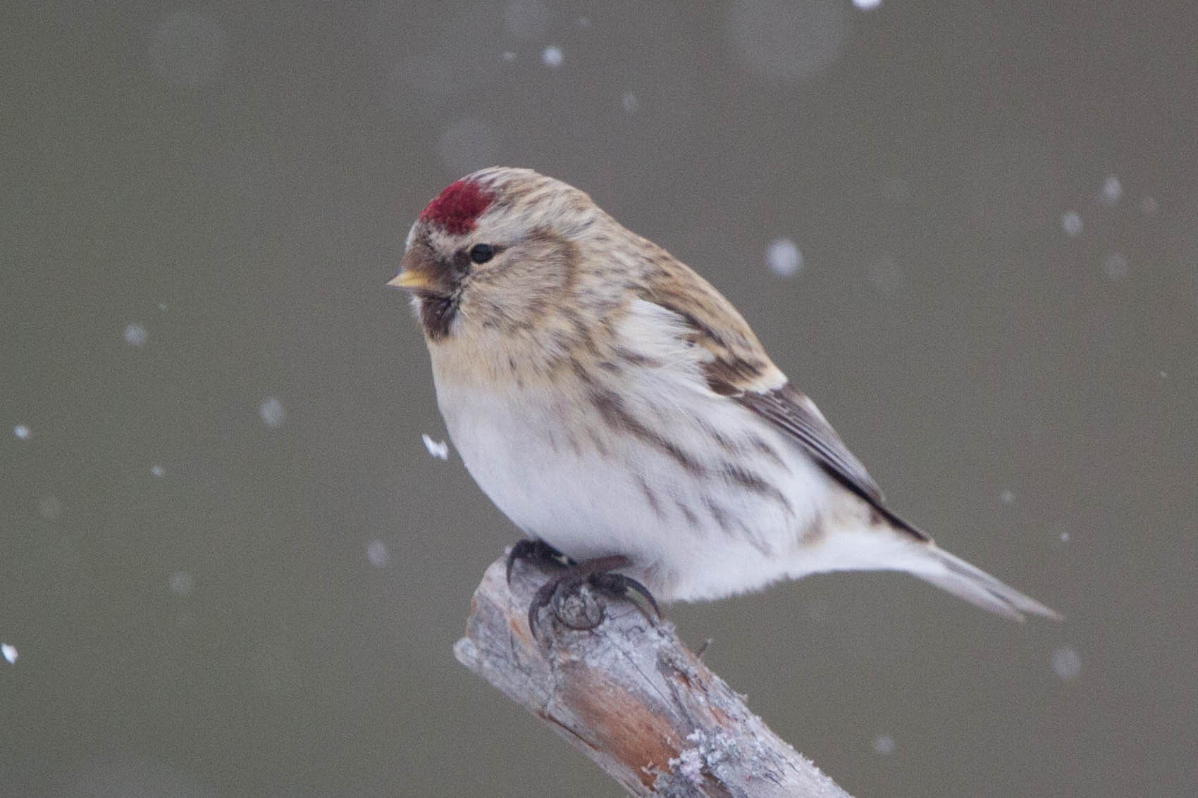 Arctic Redpoll Acanthis hornemanni, arctic Scandinavia